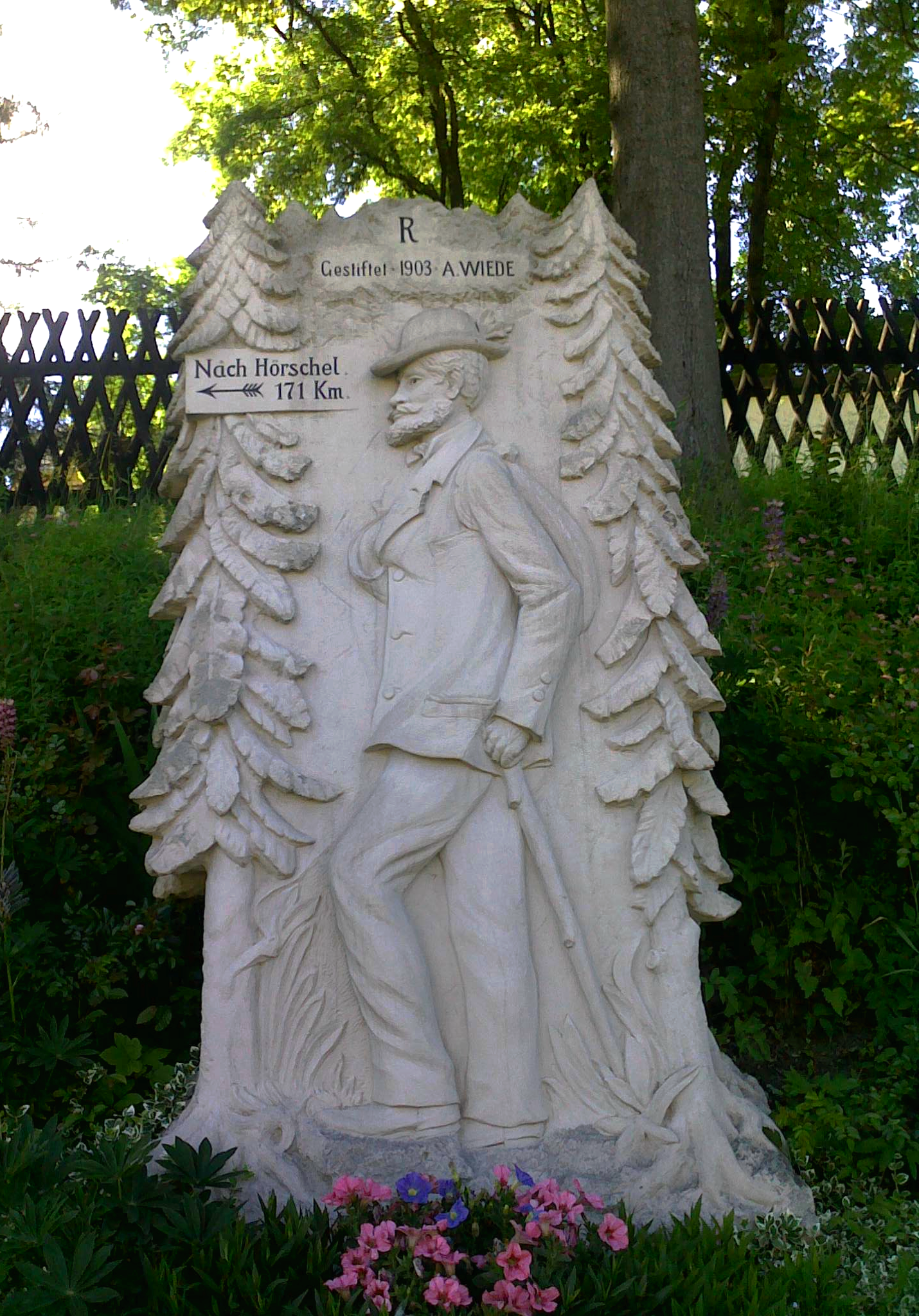 Rennsteig monument near Blankenstein railway station